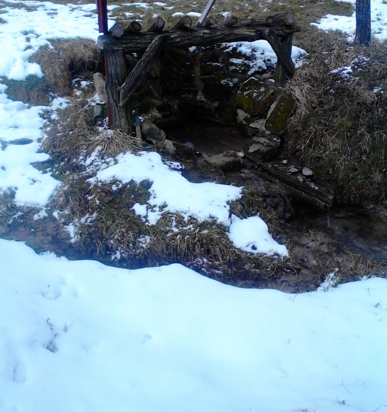 Source of the river Mrlina in Příchvoji (per Google Translate)